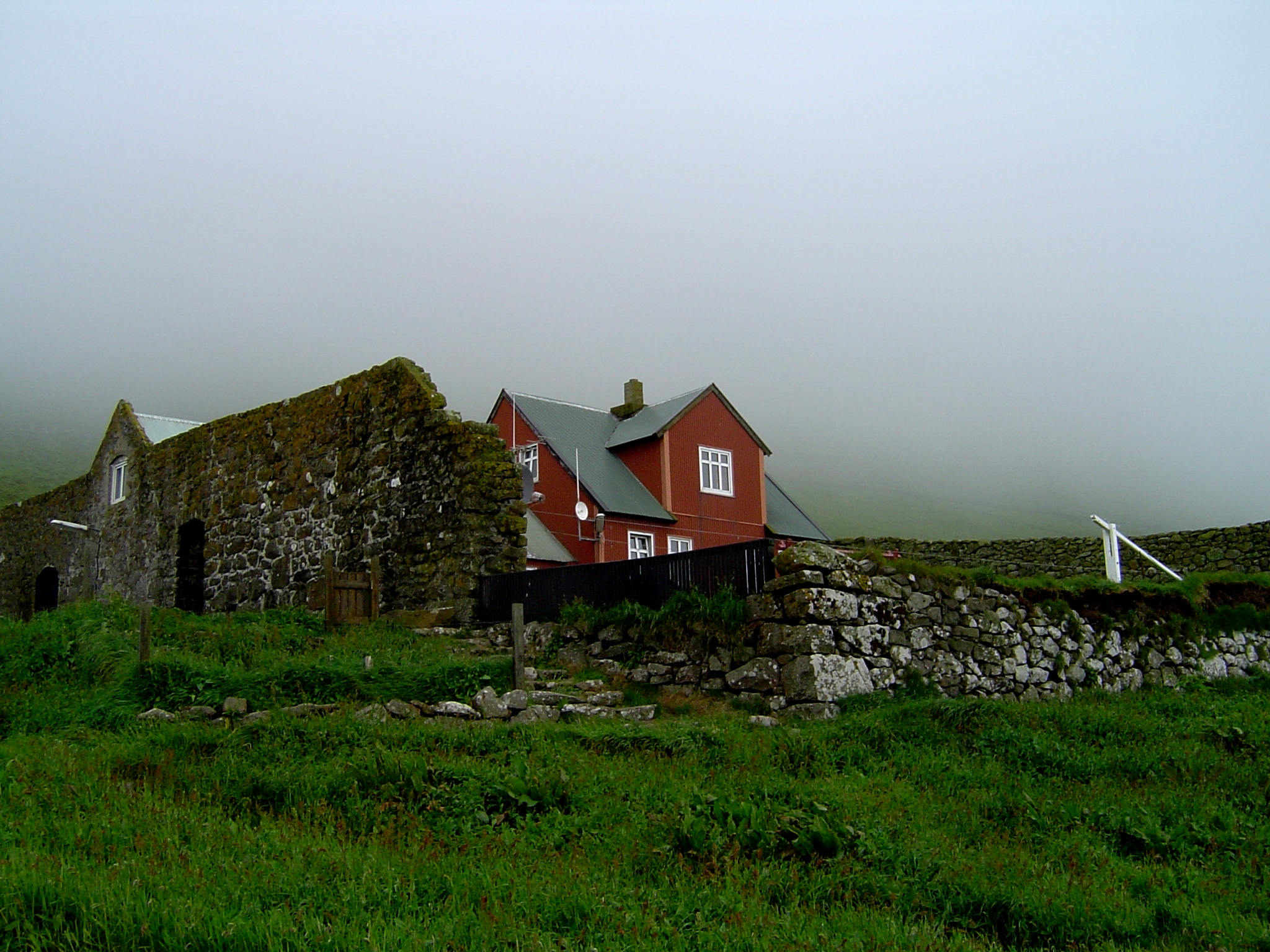 The farmhouse on the island Storá Dímun